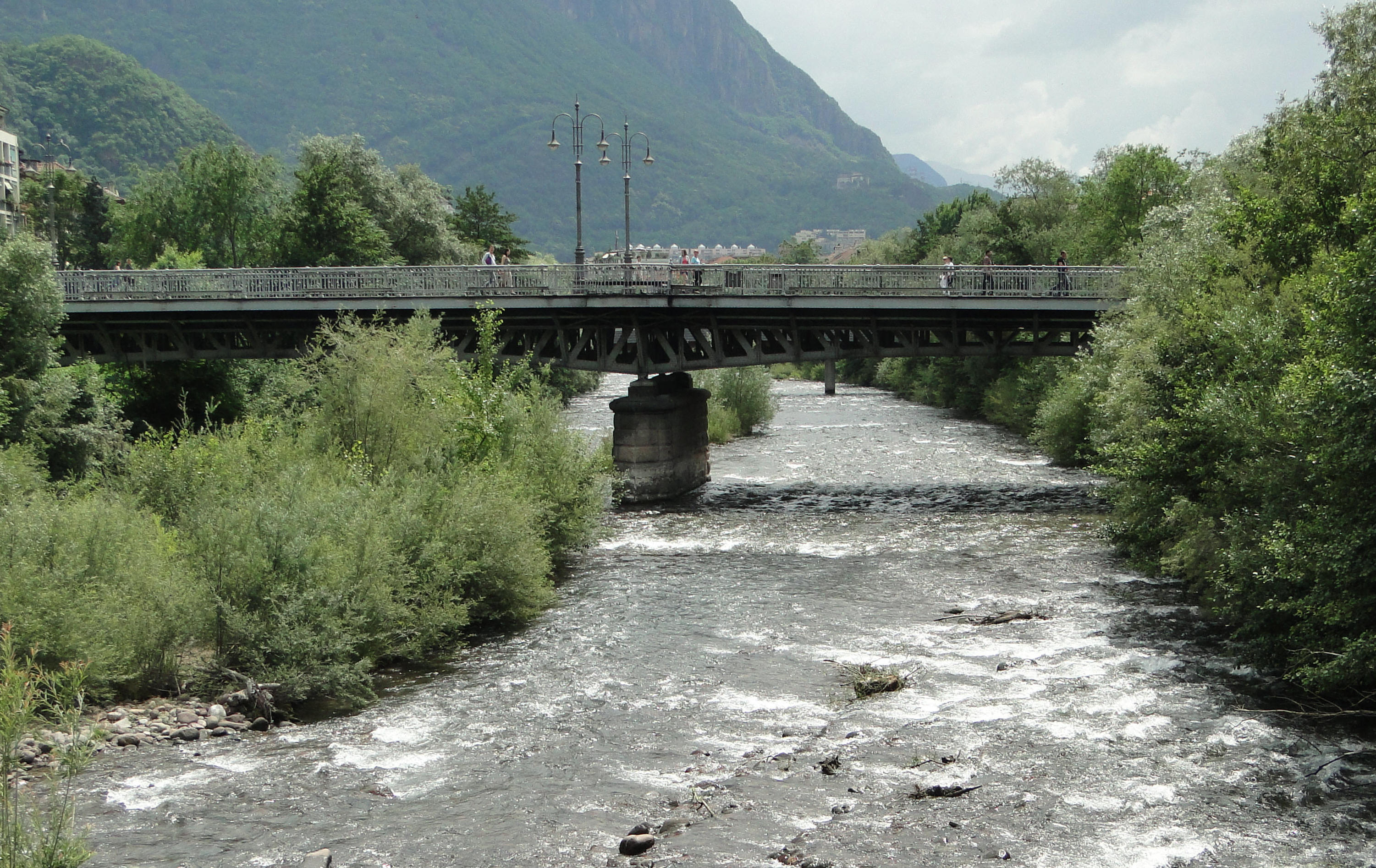 39100 Bolzano, Province of Bolzano - South Tyrol, Italy